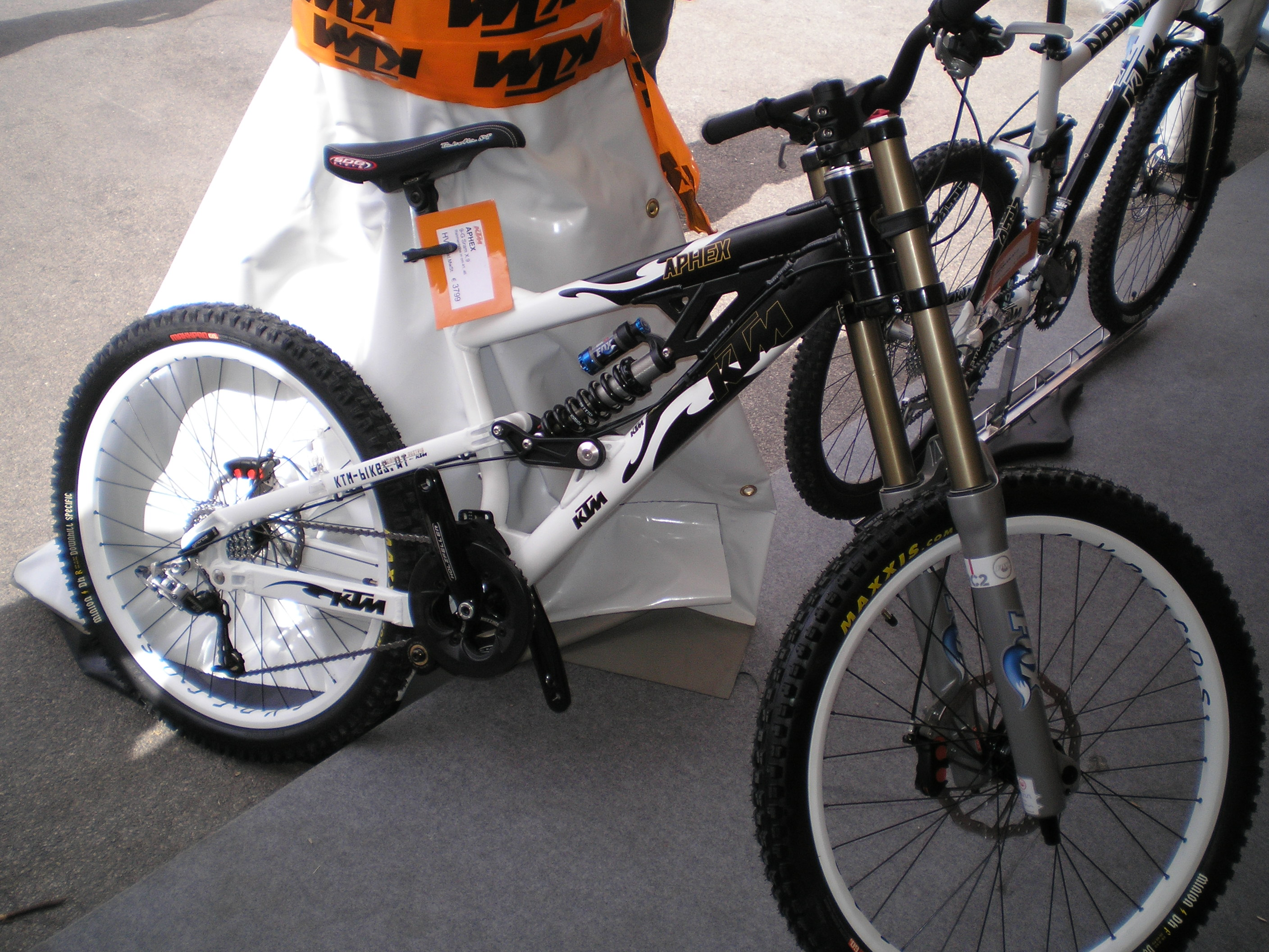 KTM Aphex